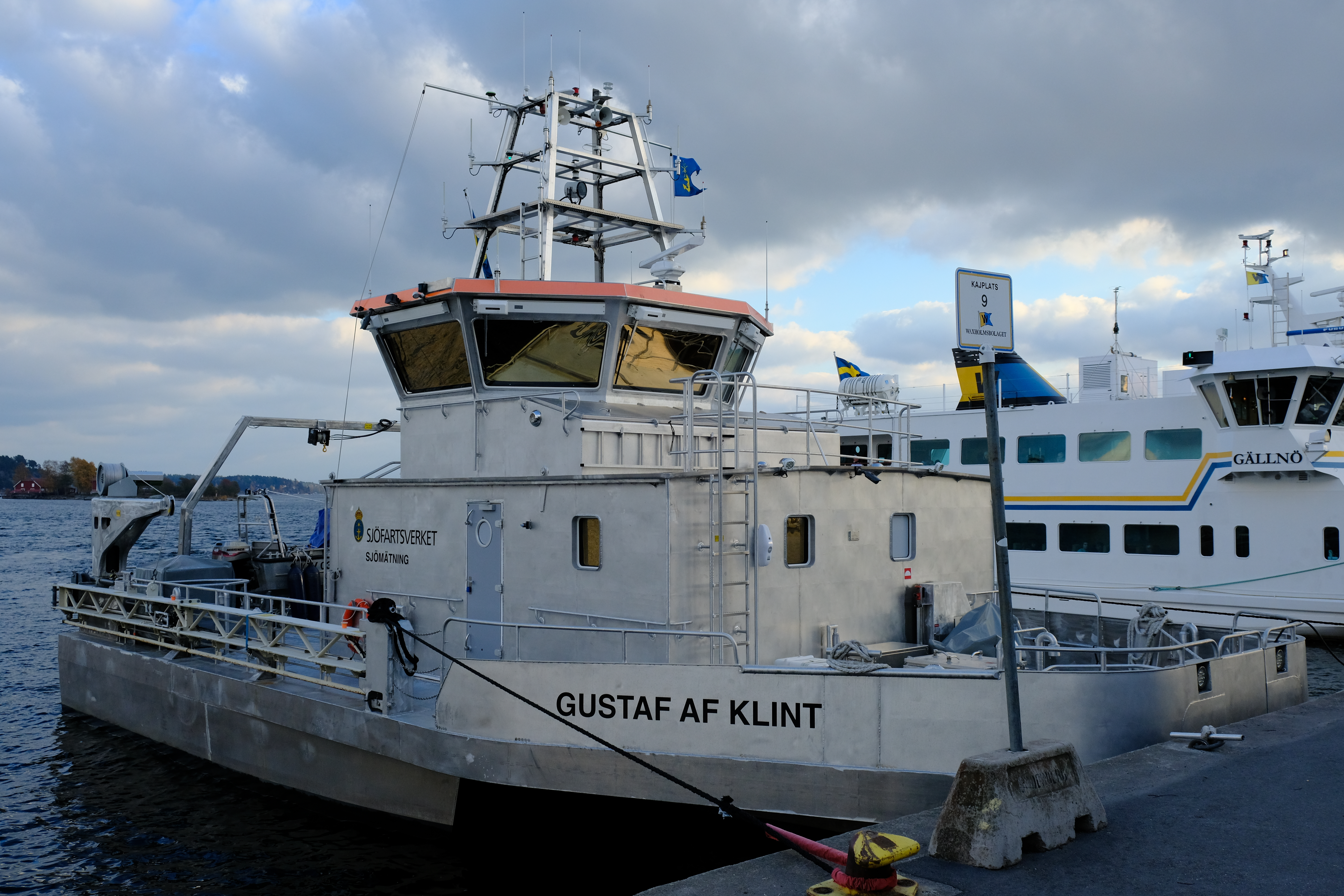 Swedish Maritime Administration's hydrographic survey vessel Gustaf af Klint in Vaxholm port